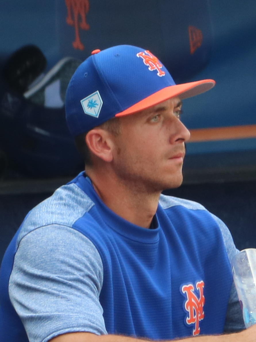 Chili Davis, Devin Mesoraco, Steven Matz and T. J. Rivera, March 2, 2019.